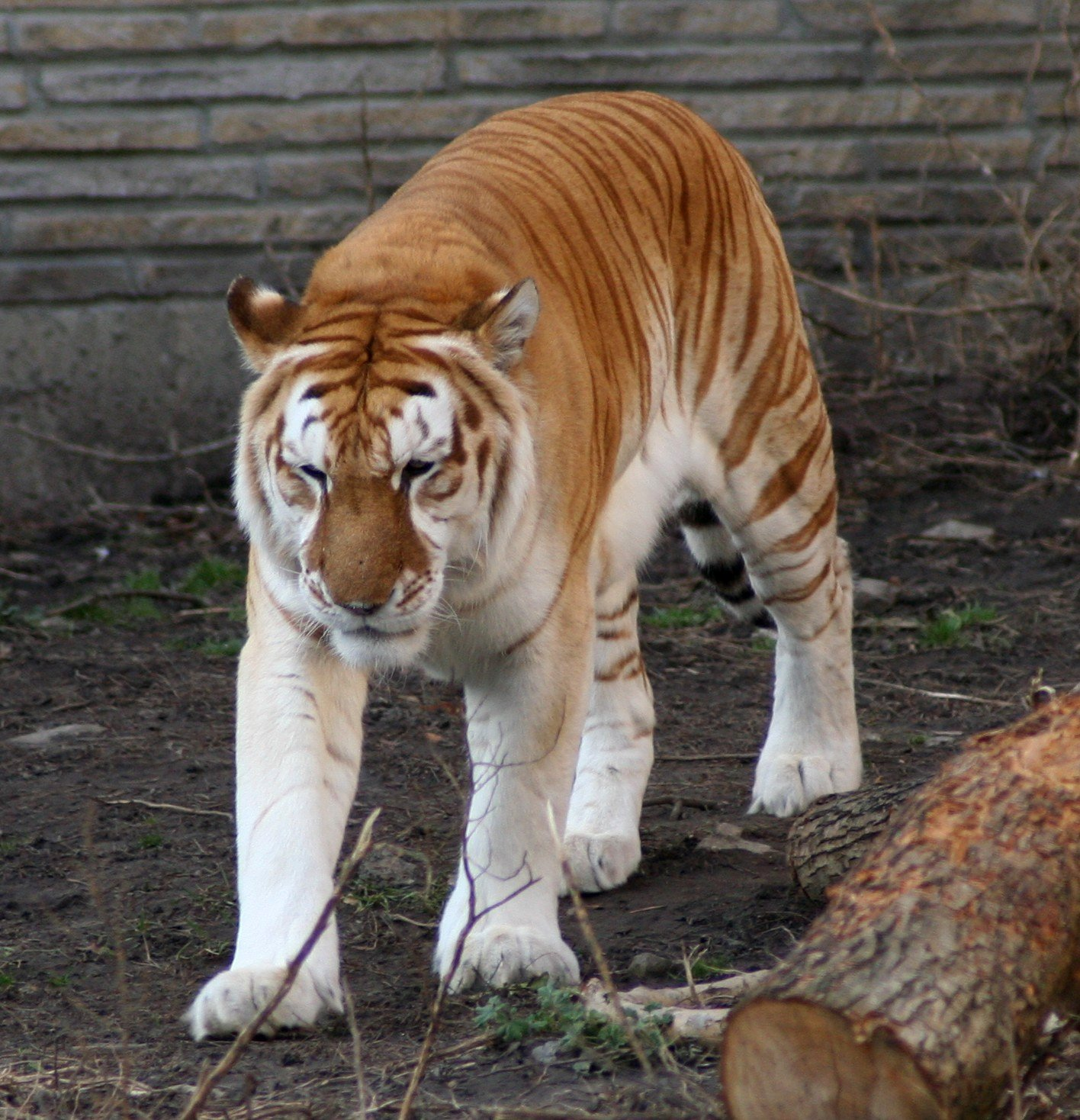 Golden tiger at the Buffalo Zoo. From wikipedia article: "The golden tabby tiger or golden tiger is an extremely rare colour variation caused by a recessive gene and now found only in captive tigers. ... There are currently believed to be less than 30 of these rare tigers in the world, but many more carriers of the gene."